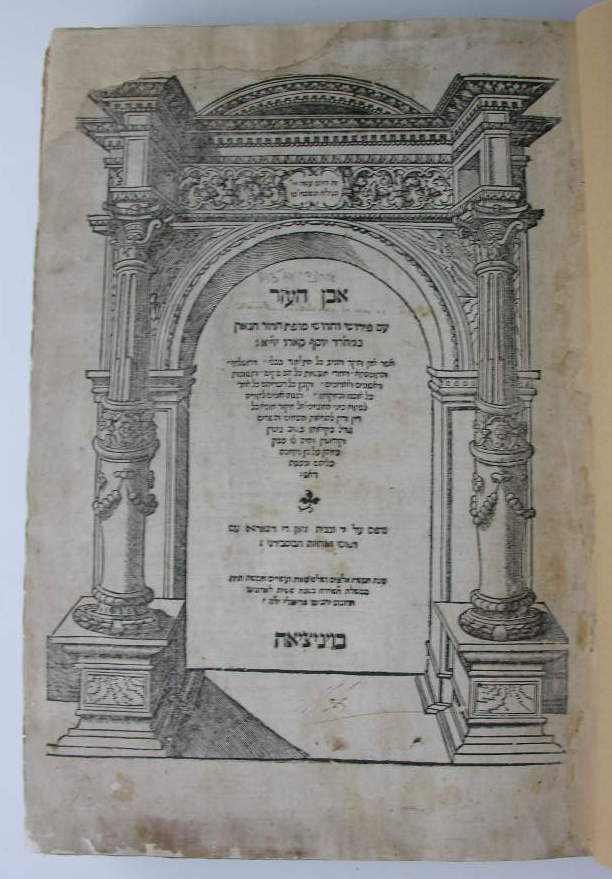 Title page of R. Jacob b. Asher (Tur): Even ha-Ezer, part III of Arba'ah Turim. Printed in Venice in 1565.